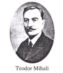 Romanian politician and lawyer Teodor Mihali, deputy in the Great National Assembly from Alba Iulia - Romania, 1918Română: Teodor Mihali, avocat, politician român și deputat în Marea Adunare Națională de la Alba Iulia, 1918